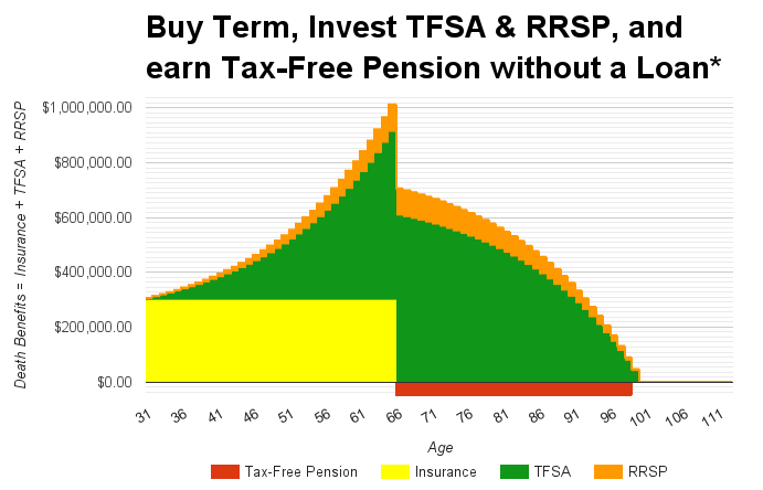 Investment performance at 6 percent